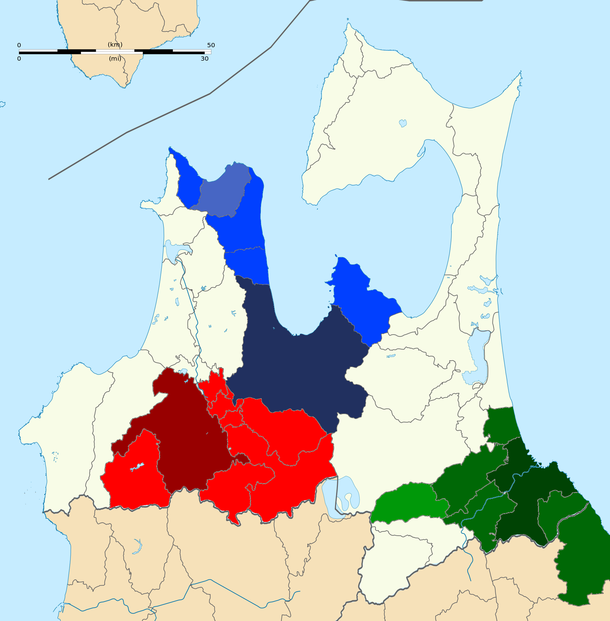 The metropolitan areas of Aomori Prefecture Dark red is Hirosaki with its surrounding suburbs shaded in lighter red Dark blue is Aomori with its surrounding suburbs shaded in lighter blue, and outlying suburbs in light blue Dark green is Hachinohe with its surrounding suburbs shaded in lighter green, and outlying suburbs in light green (Hirono in Iwate Prefecture is also shaded as part of Greater Hachinohe)